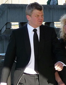 Adrian Chiles at the BAFTAs in April 2009.